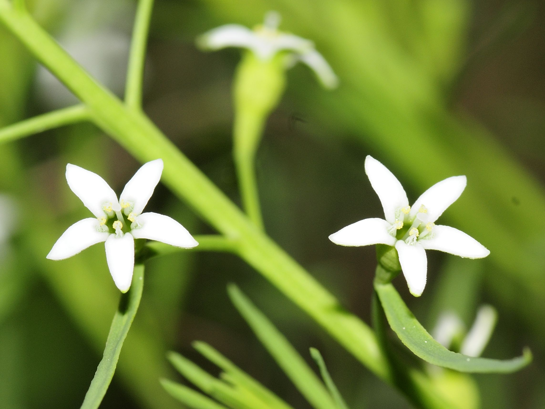 Please report references to .